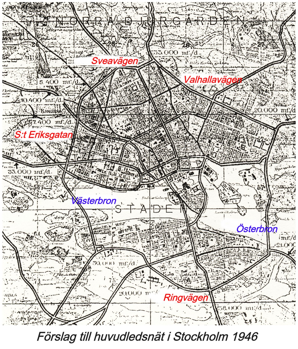 Source: 1946 Stockholm map showing existing and (proposed by the city's department of planning) future thoroughfares